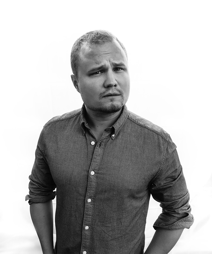 Portrait photo of Miika Ullakko